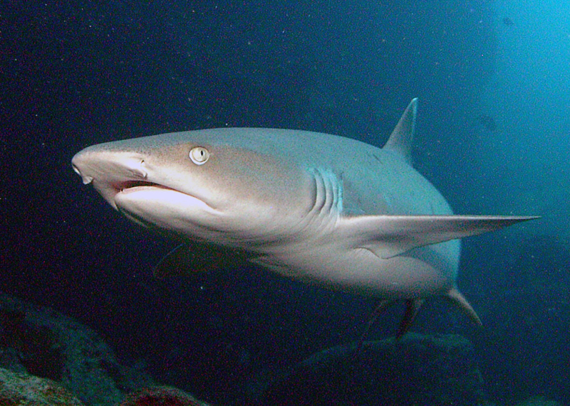 Whitetip reef shark (Triaenodon obesus) off the Hawaiian Islands